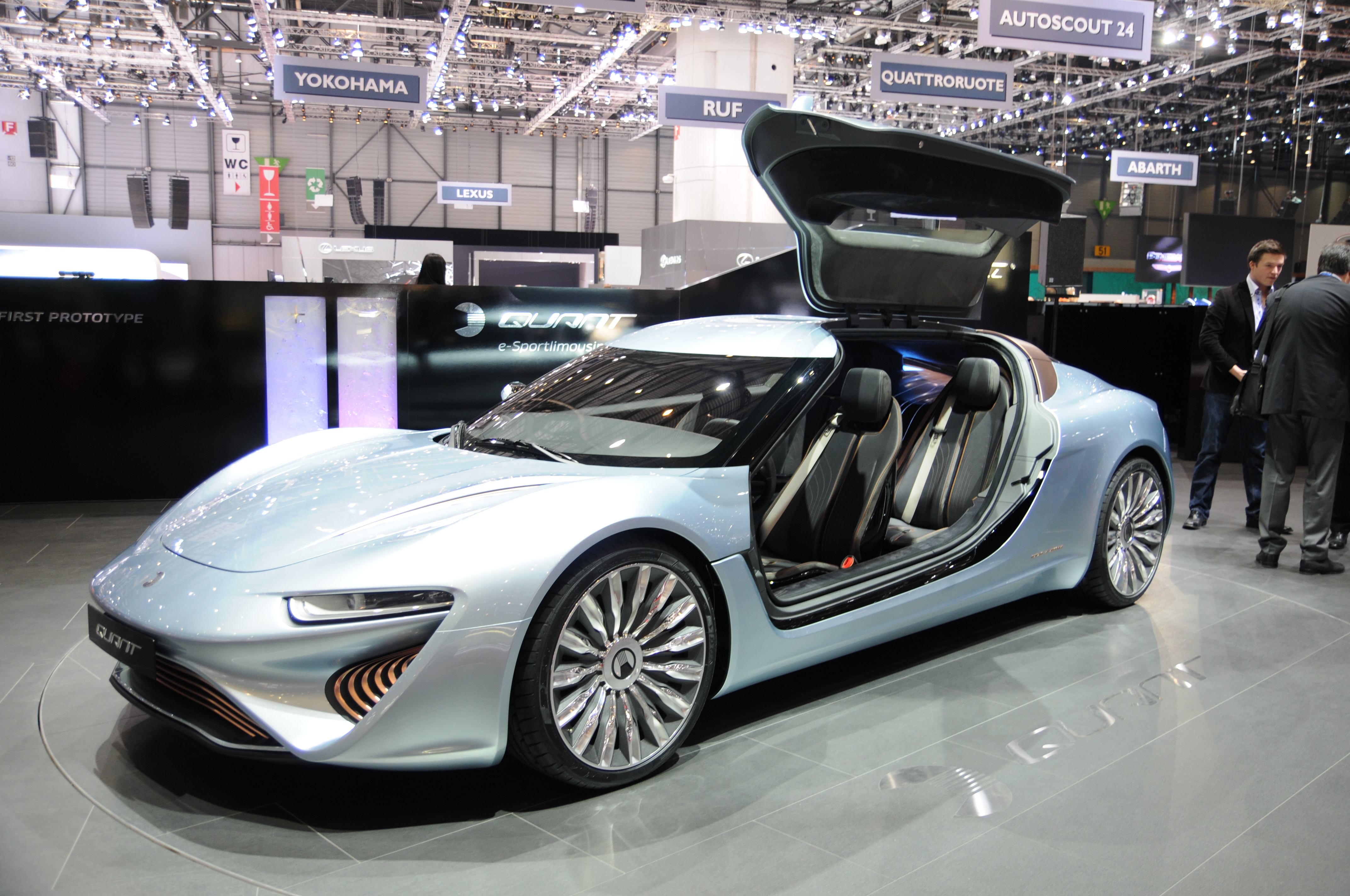 Geneva Motor Show 2014 (photo taken on the first press day)